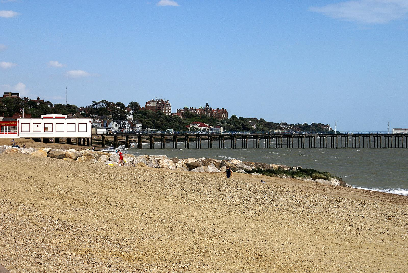 Felixstowe, Suffolk, England. Shows the beach, the pier and in the background buildings on the sea front. Photo taken on 14 August 2008.